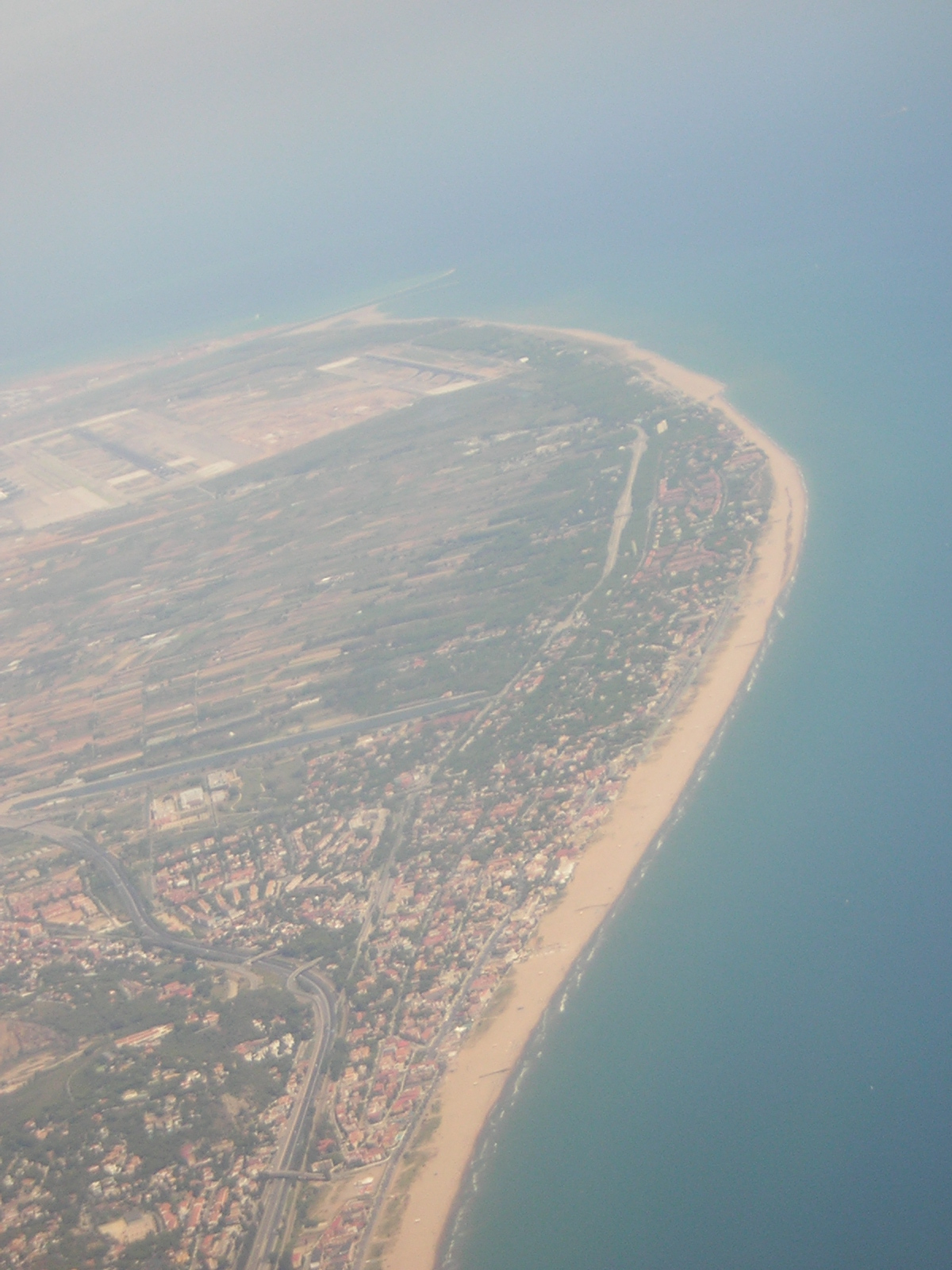 The coast of barcelona from an airplane. It's my own work, so copyright free.